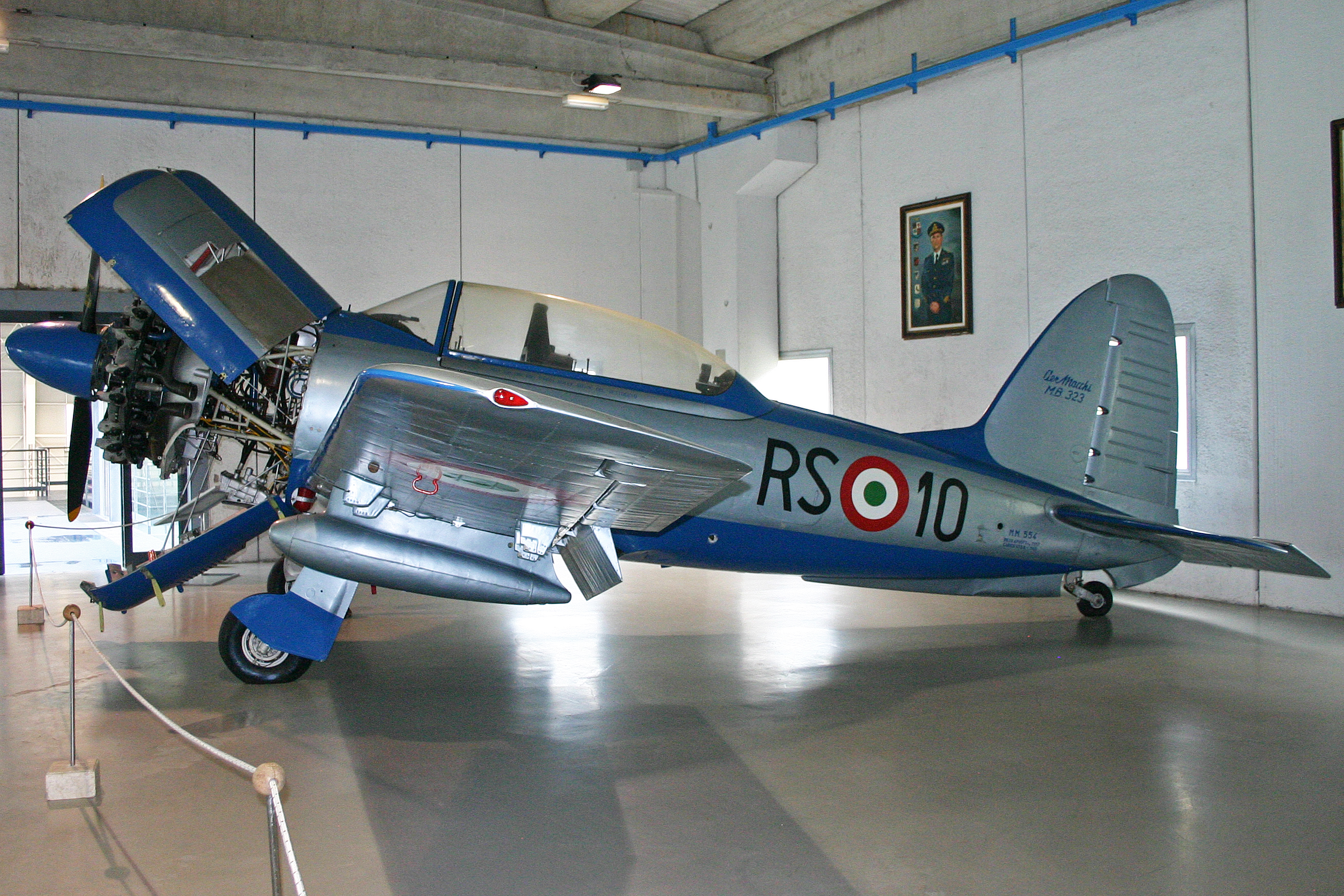 Displayed on the Balcony of Hangar SKEMA. msn 6045.